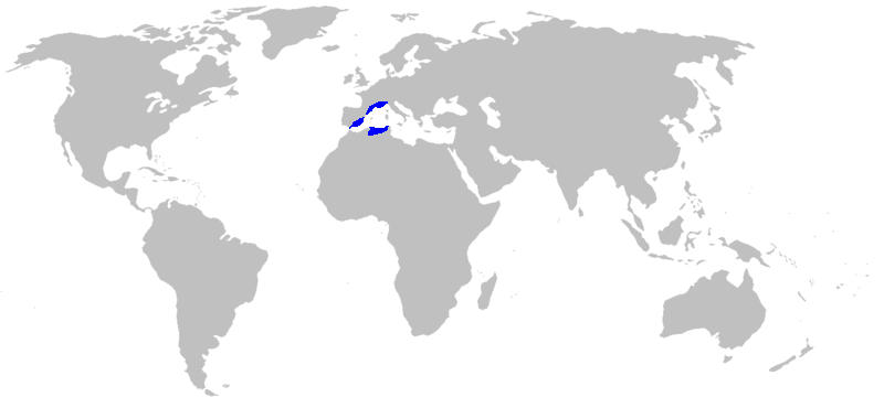 Plant family Aphyllanthaceae distribution map